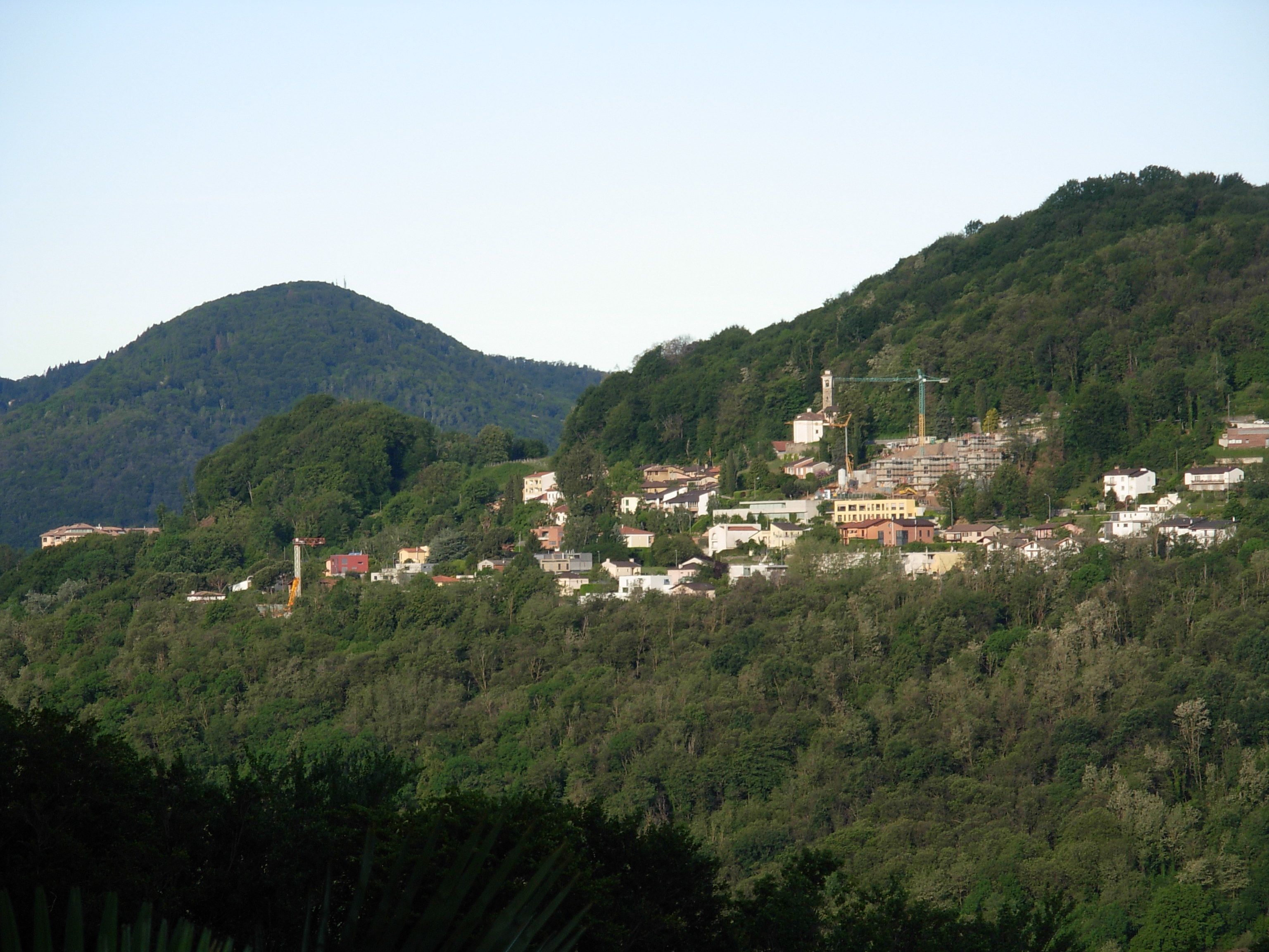 The village Agra (Ticino, Switzerland)